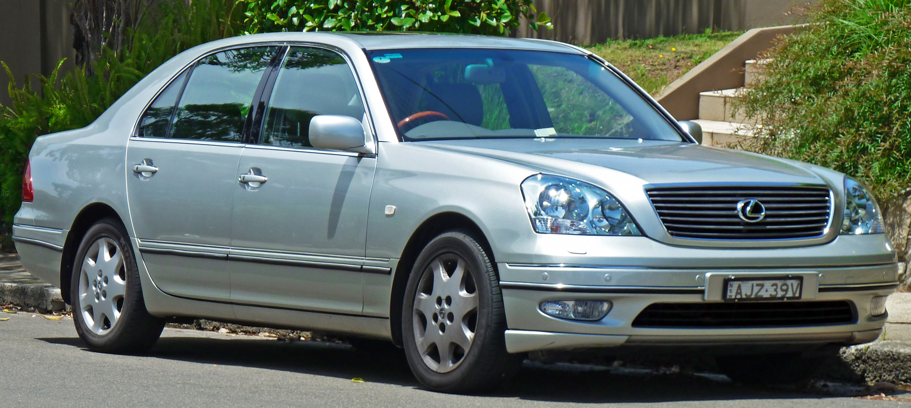 2000–2003 Lexus LS 430 (UCF30R) sedan. Photographed in Vaucluse, New South Wales, Australia.